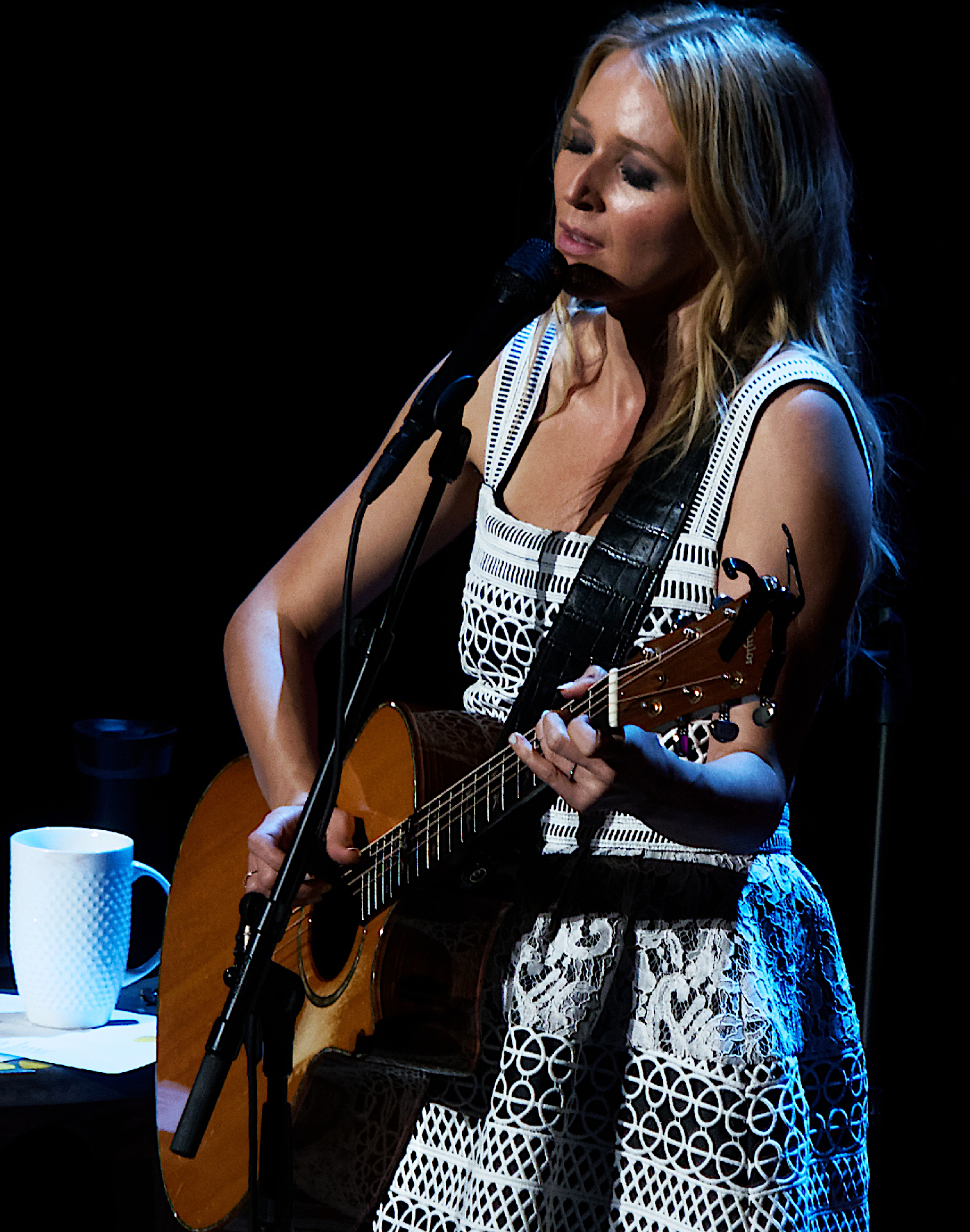 Jewel Kilcher performing live at the Valley Performing Arts Center at Cal State Northridge (CSUN), in Los Angeles California on Wednesday May 18th, 2016.